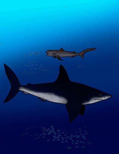 Comparison of the primitive megamouth, Megachasma alisonae, and the early megalodon, Carcharocles auriculatus, from the Late Eocene of Denmark.